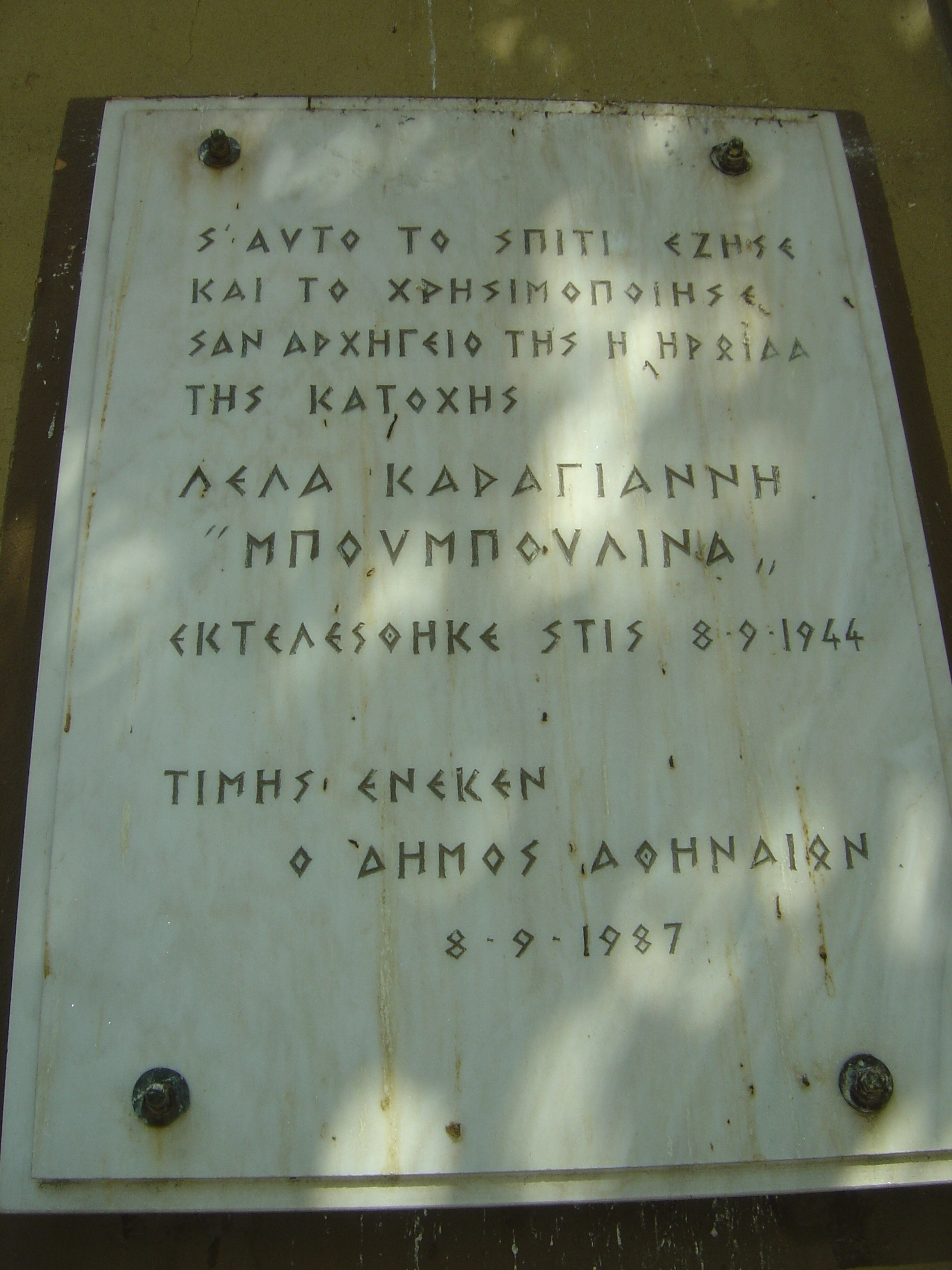 Memorial plaque in front of Lela Kargianni house in Athens, Greece